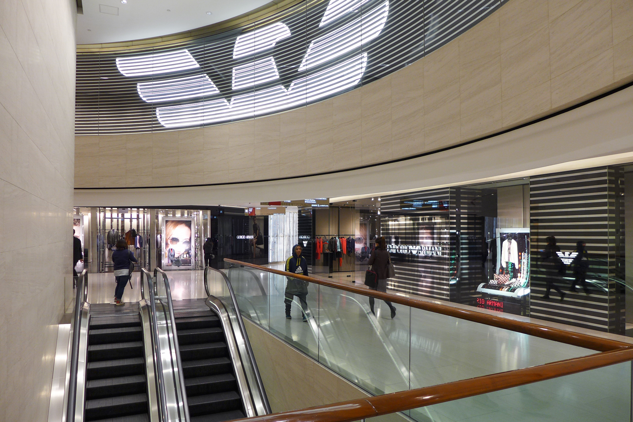 Chater House Retail space